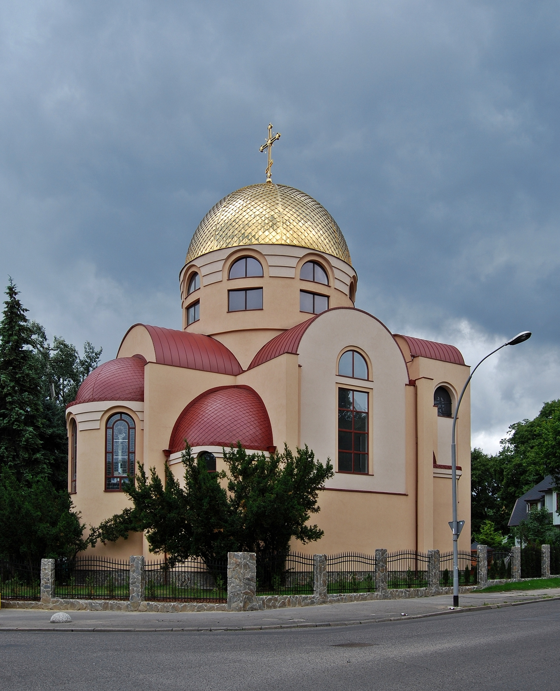 St. Nicholas Orthodox Church in Szczecin, Poland.